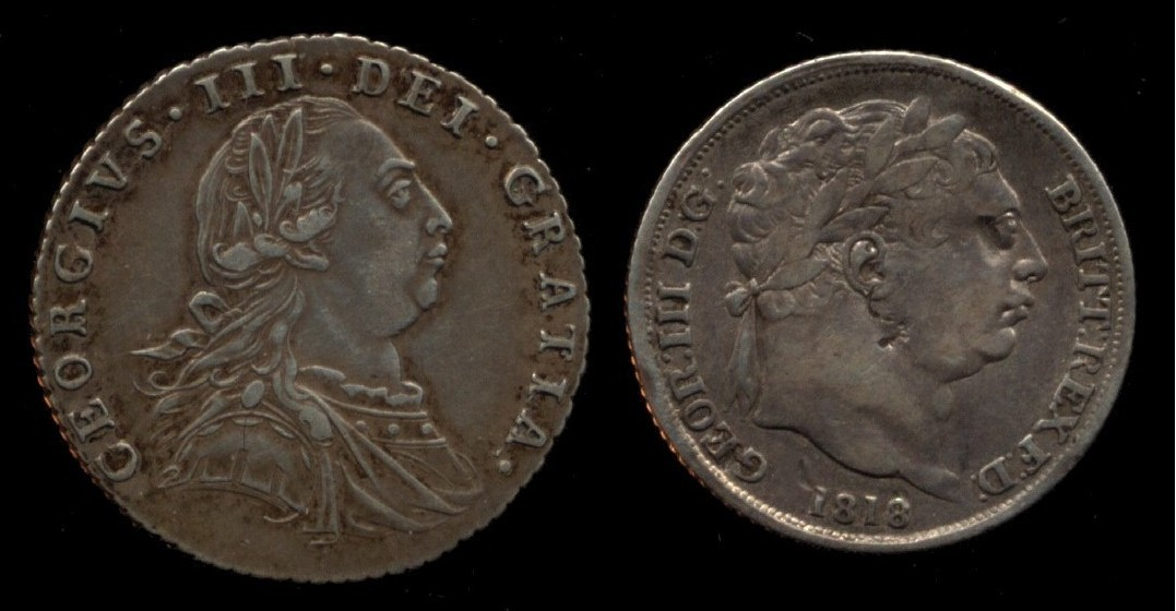 George III sixpence coins, 1787 and 1818